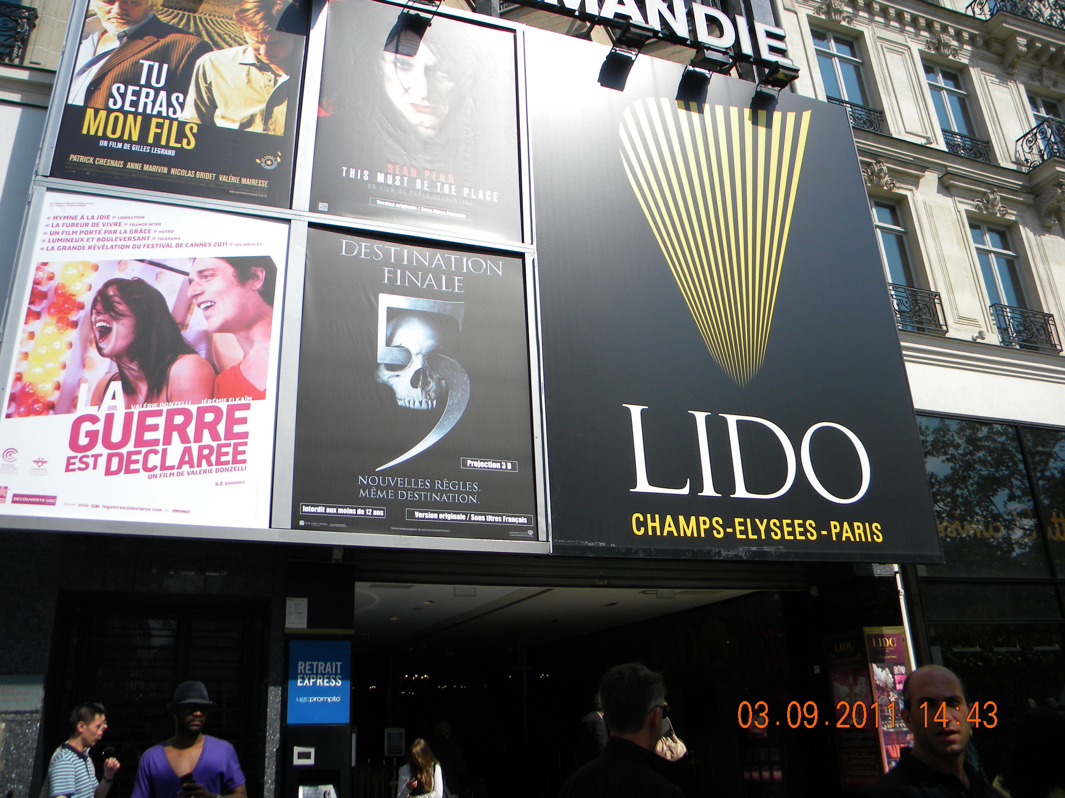 Casino LIDO on Champs Elysees, Paris